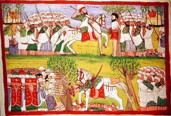 Burning of Churches Muslims and the Death of Cristobal de Gama and the Fall and Death of Ahmad ibn Ibrahim al-Ghazi Shot by a Portuguese Musketeer